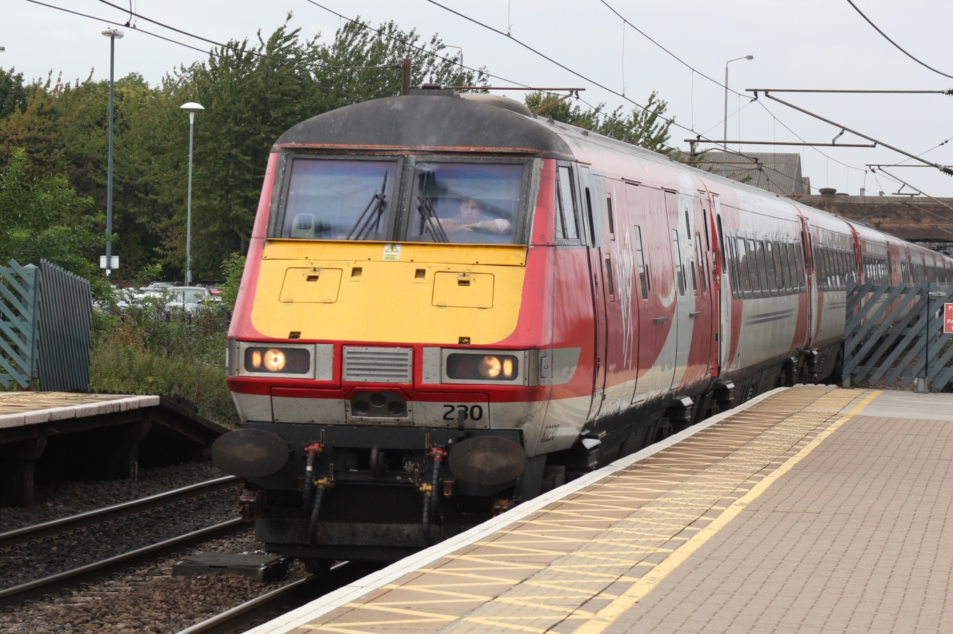 A Virgin Trains service speeds through Newark North Gate station on its way to London king's Cross with driving van trailer 82230 on the front.